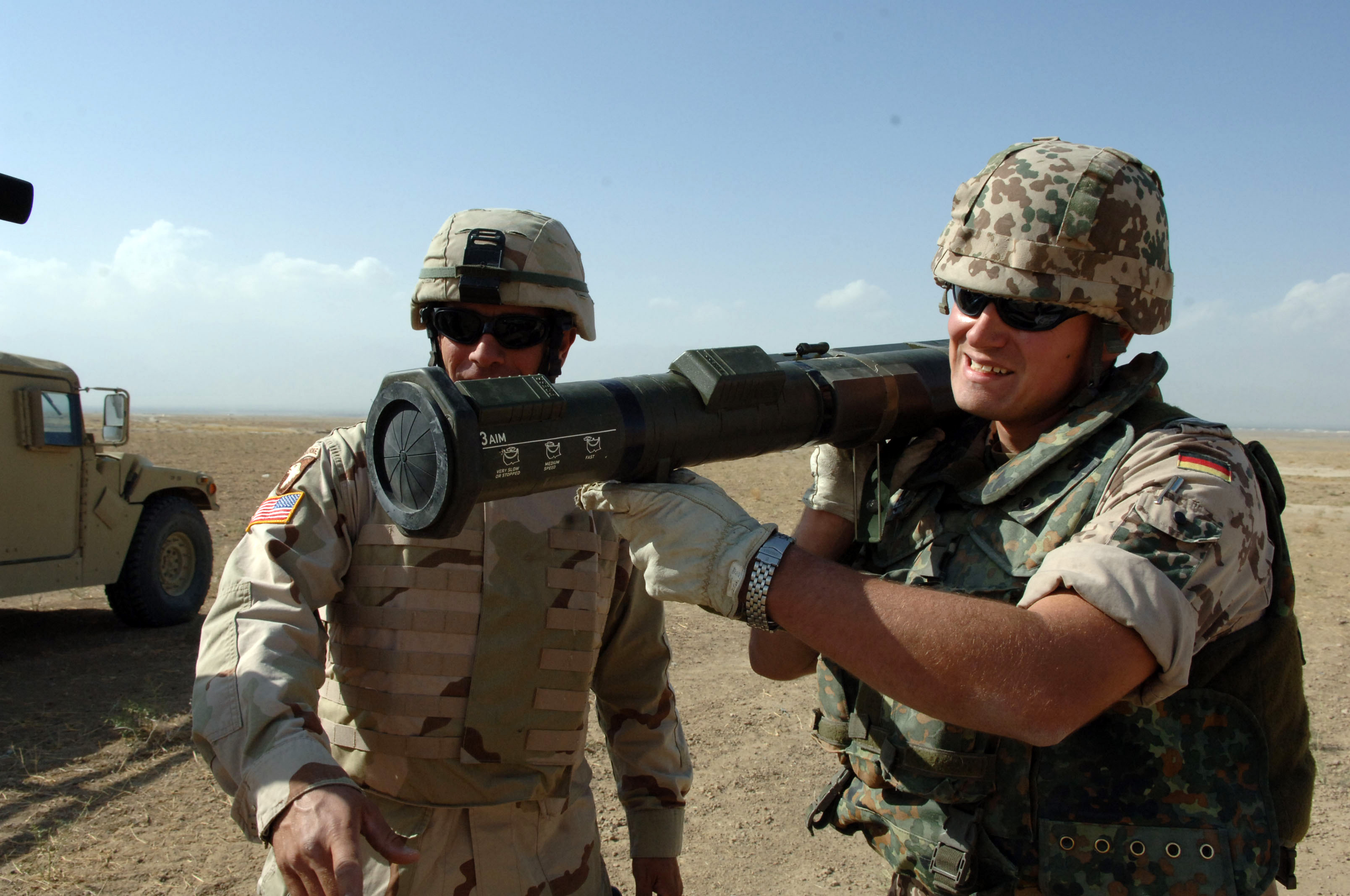 A German Army soldier in the standing position, prepares to launch the AT4 (Light Anti Tank Rocket) while Sgt.. 1st Class Jon Marcum from Combined Joint Task Force 76, gives final instructions during Joint Heavy Weapons Range in Bagram, Afghanistan.